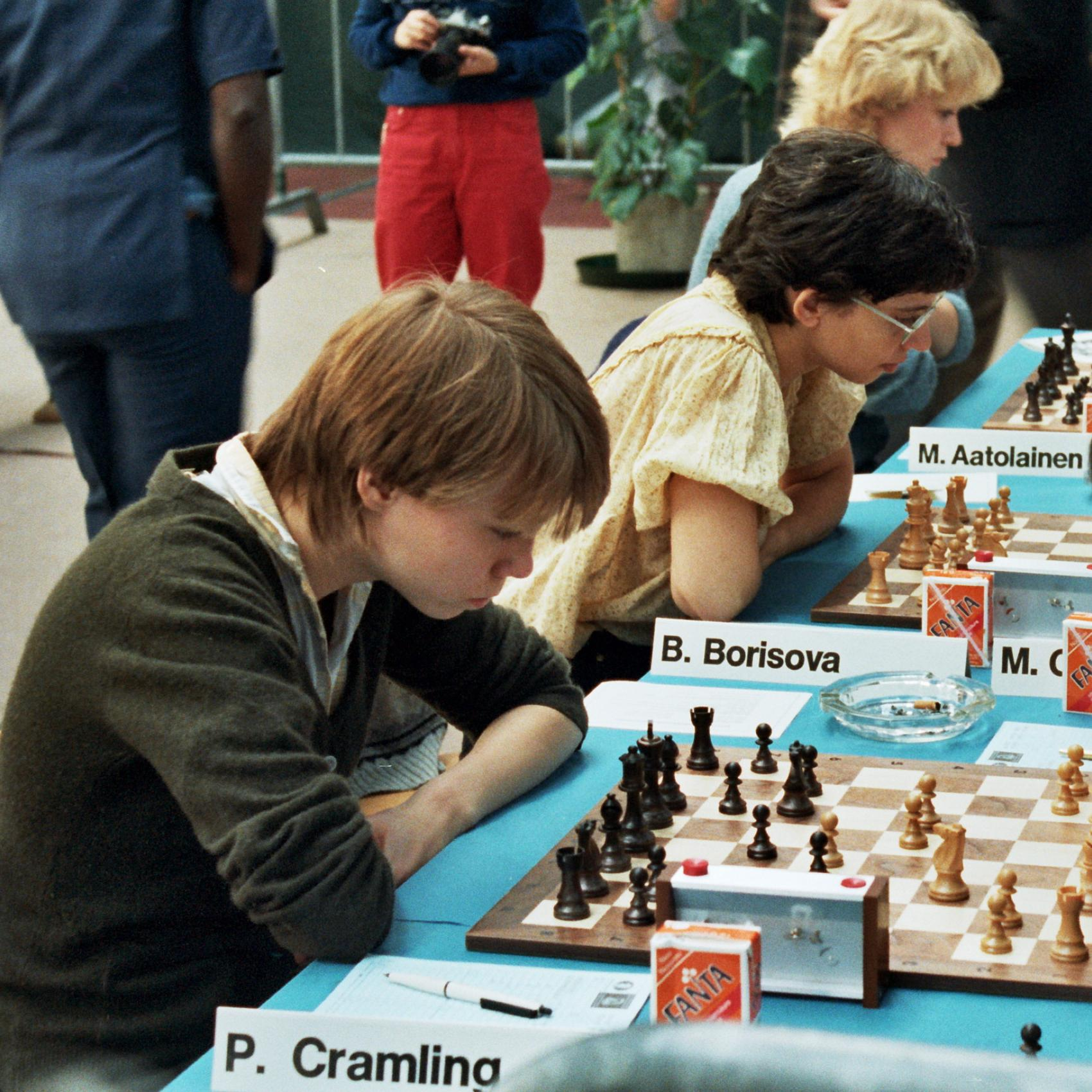 Pia Cramling, Borislava Borisova, Margaretha Aatolainen, Chess Olympiad 1982 in Lucerne, Photographer Gerhard Hund.